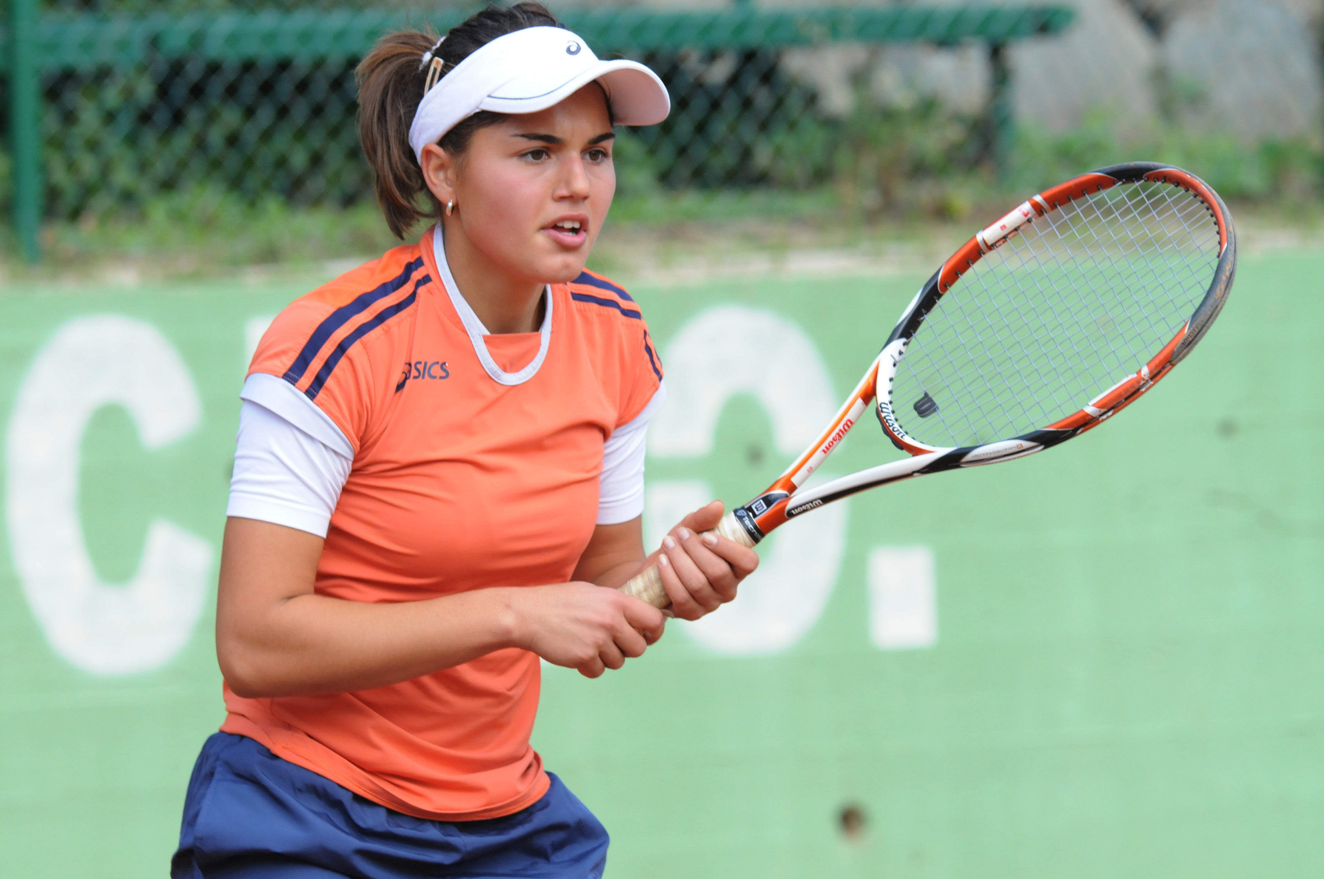 Martina Gledacheva, Roma 2008.